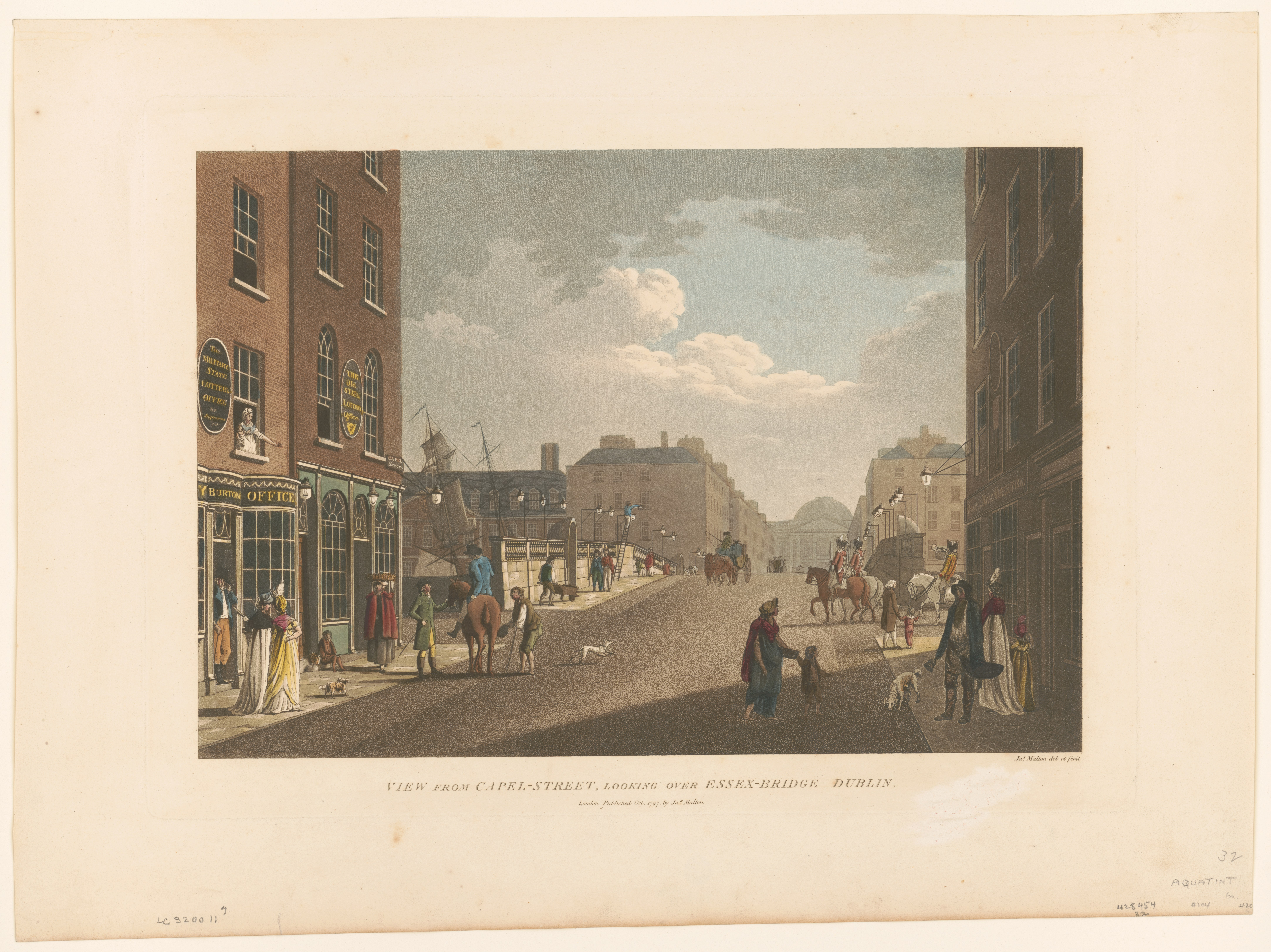 Title: View from Capel-Street, looking over Essex-Bridge Dublin Physical description: 1 print. Notes: This record contains unverified data from PGA shelflist card.; Associated name on shelflist card: Malton, James.